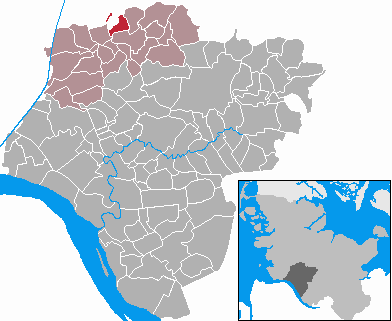 This map shows the area of the municipality Aasbüttel in the Kreis (district) Steinburg, Schleswig-Holstein, Germany.